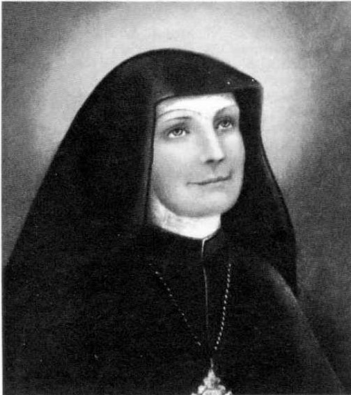 Photoengraving with Saint Vicenta María López y Vicuña's portrait, 19th cent.